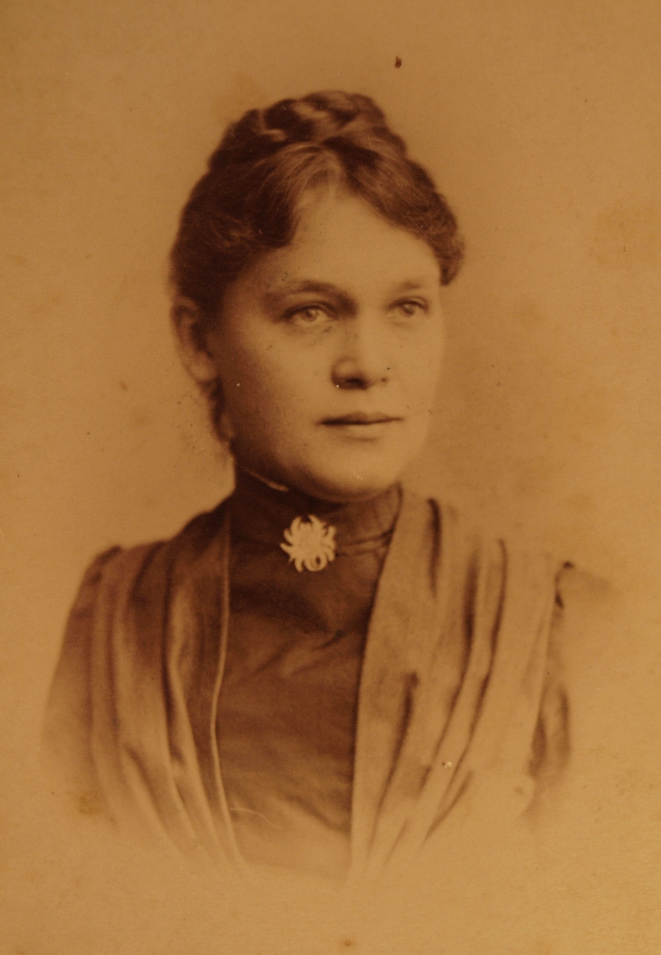 Image of the german painter Ilse Ohnesorge